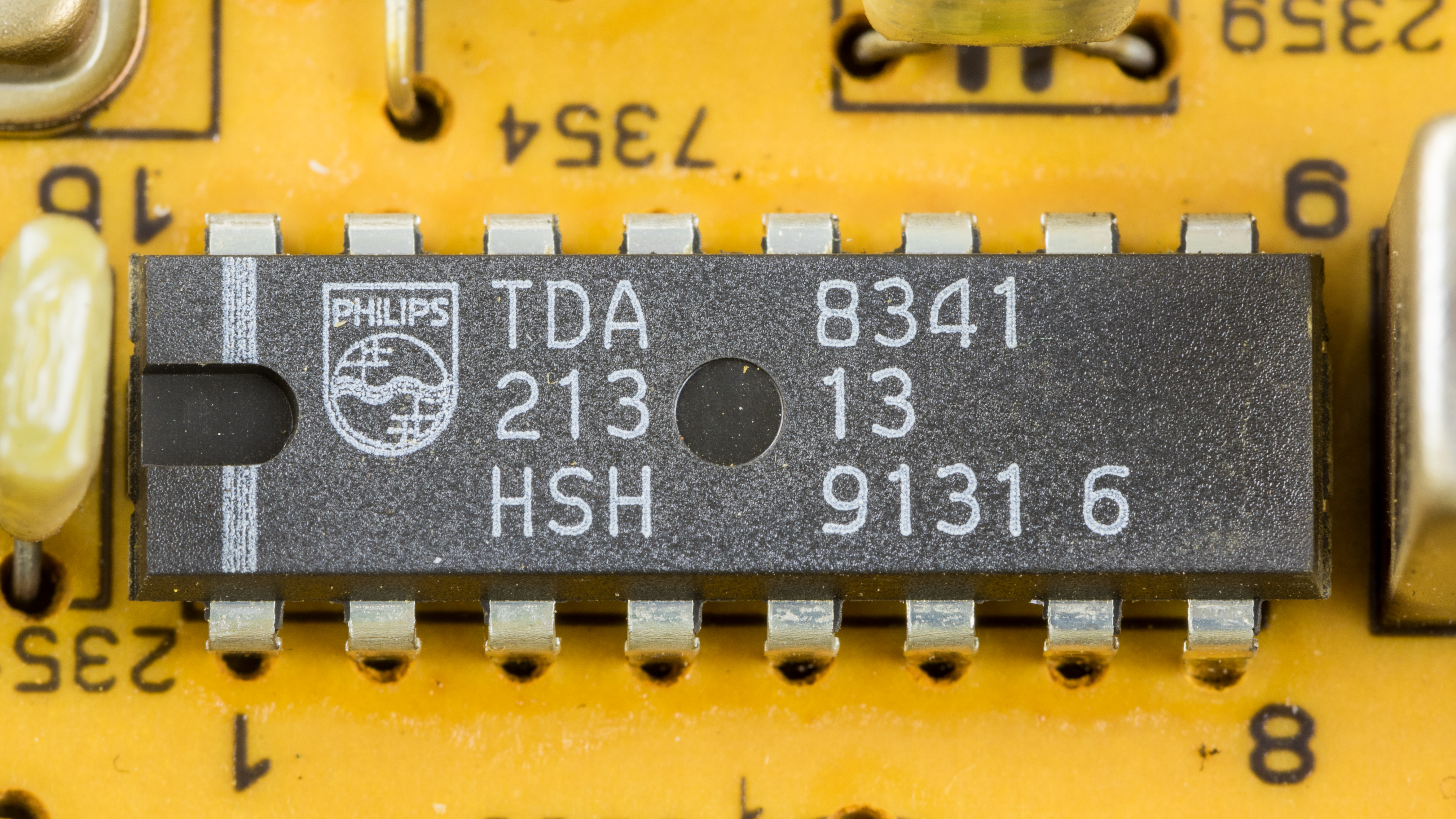 Profitronic VCR7501VPS - controller board - Philips TDA8341 - Television IF amplifier and demodulator